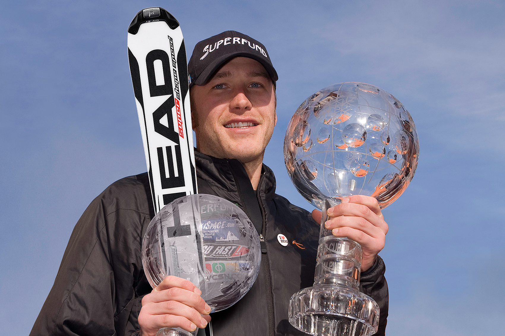 Miller Bode 2008, Over All Alpine Ski Worldcup 2007/08